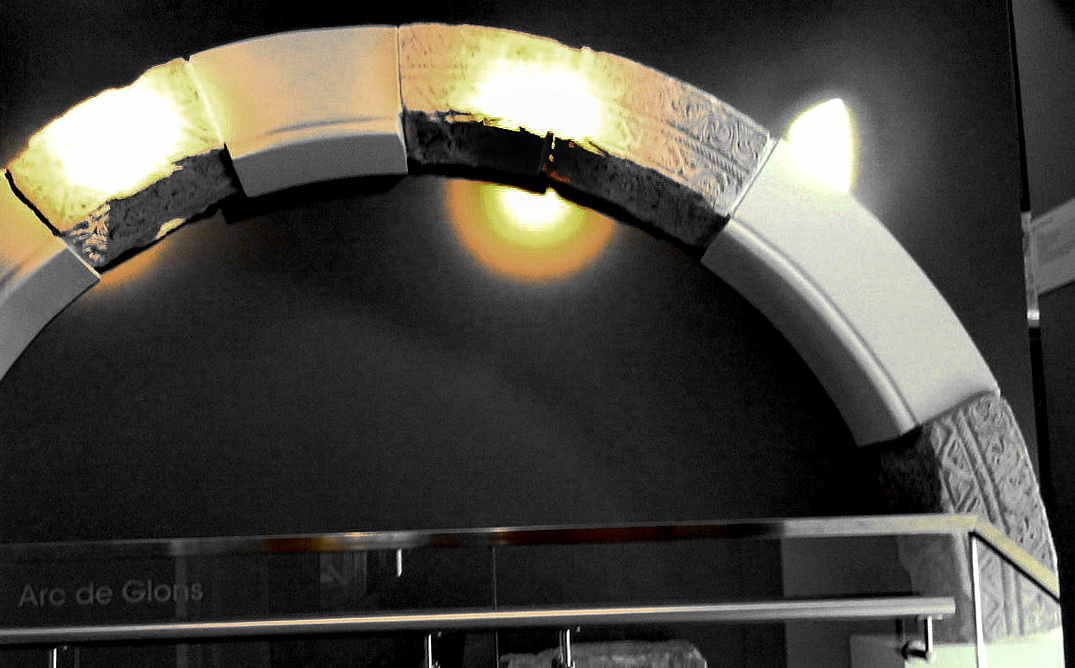 So-called Arc de Glons, a 7th-century arch consisting of carved stones with merovingian reliefs, originally in the church of Glons, now in the collection of the Grand Curtius, Liège, Belgium.